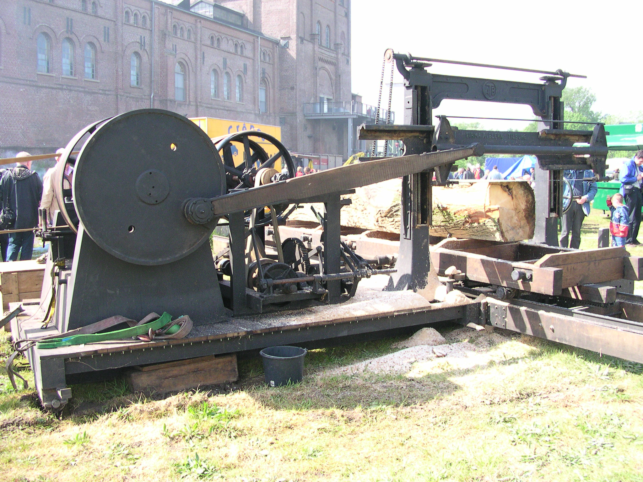 5th steam festival in Bochum, Germany 2007